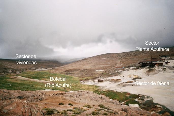 Planta azufrera de Tacora (planta de tratamiento a la derecha). El sector del bofedal divide el sector de viviendas del de la oficina y de pulpería.